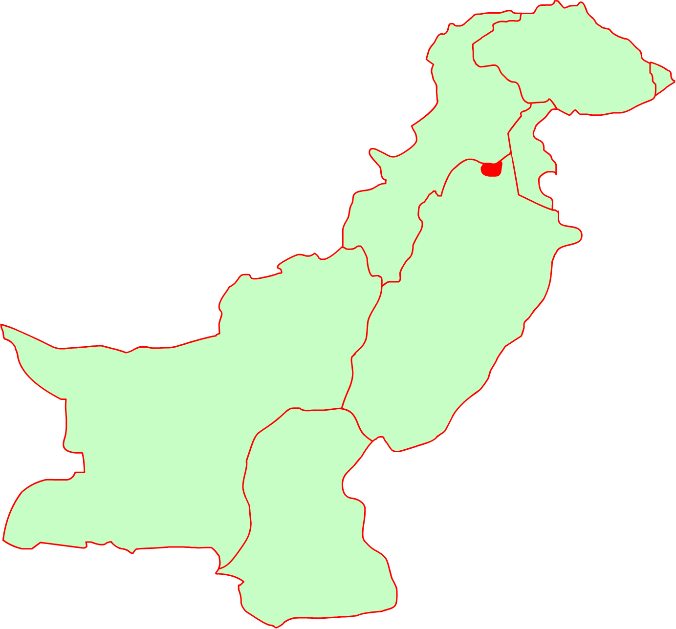 location of Islamabad